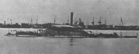 (Cropped version) Photograph of CSS Tennessee taken after capture by Federal forces.